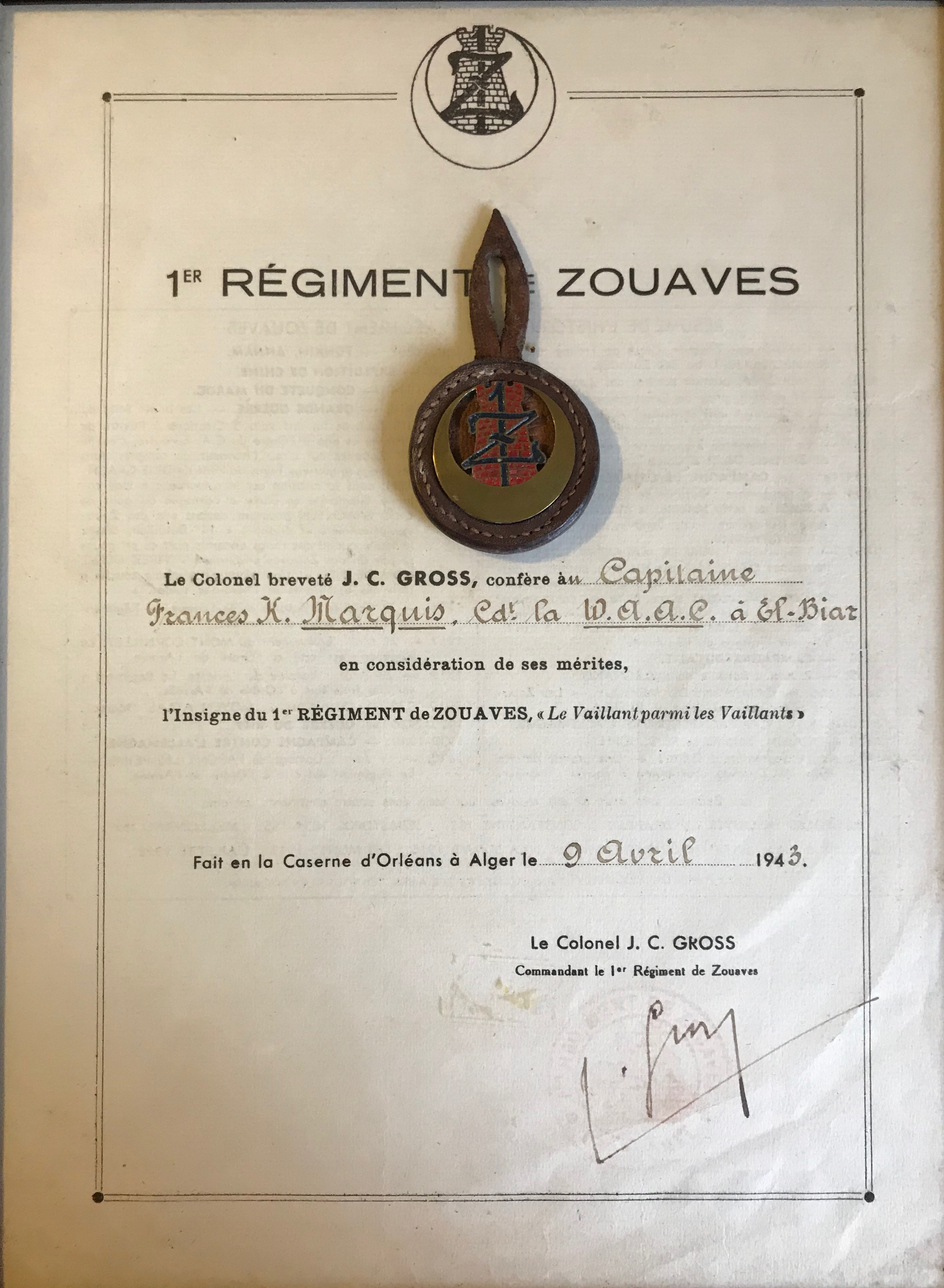 Medal awarded to WAAC Captain Frances Keegan Marquis by 1st Regiment of Zouaves, French Foreign Legion